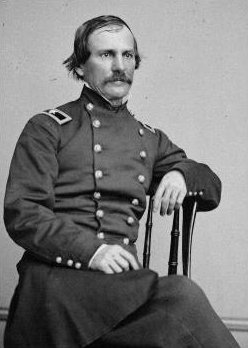 William Hays, Union General, from